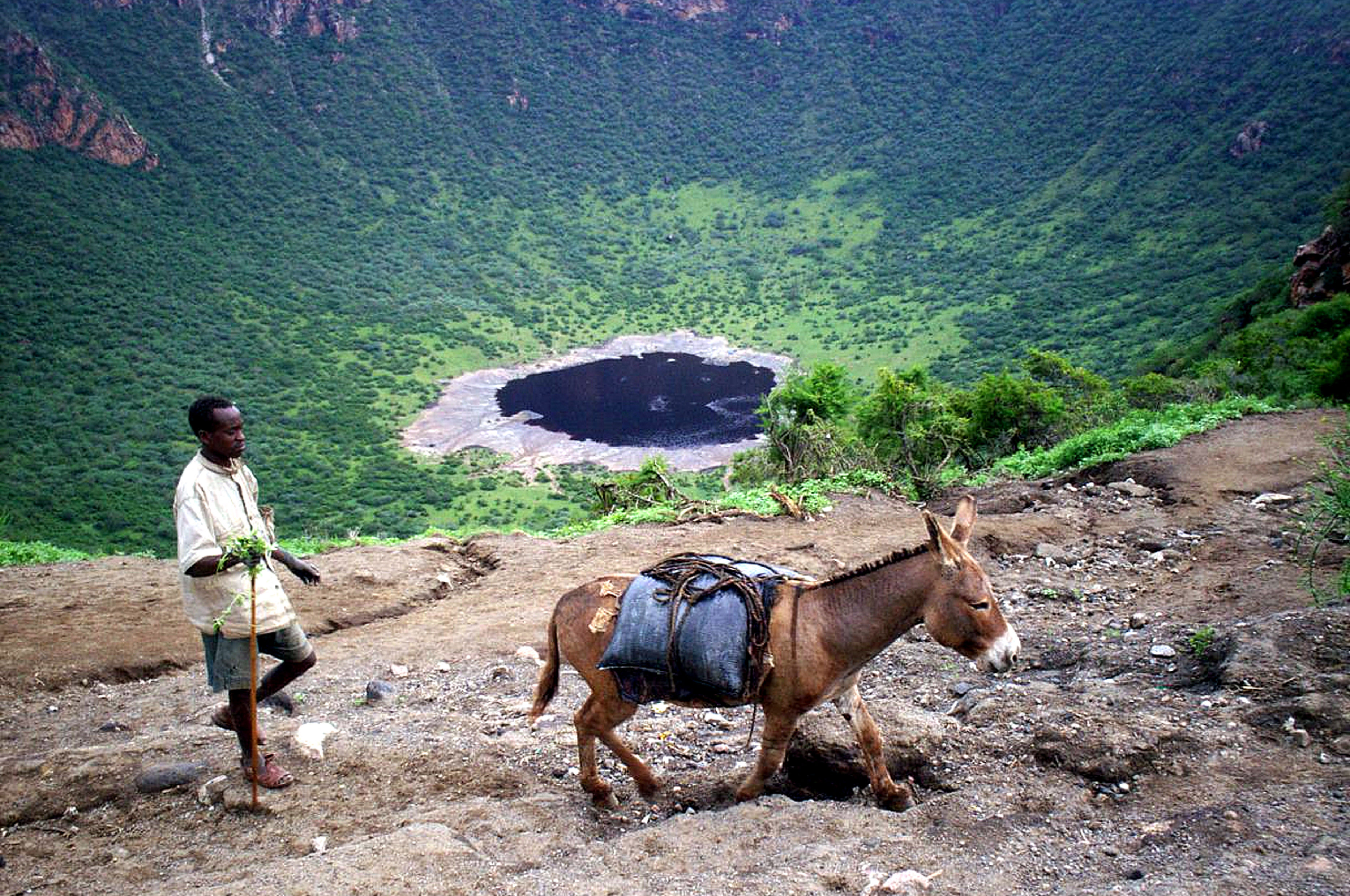 The Soda volcano, Oromia, Ethiopia